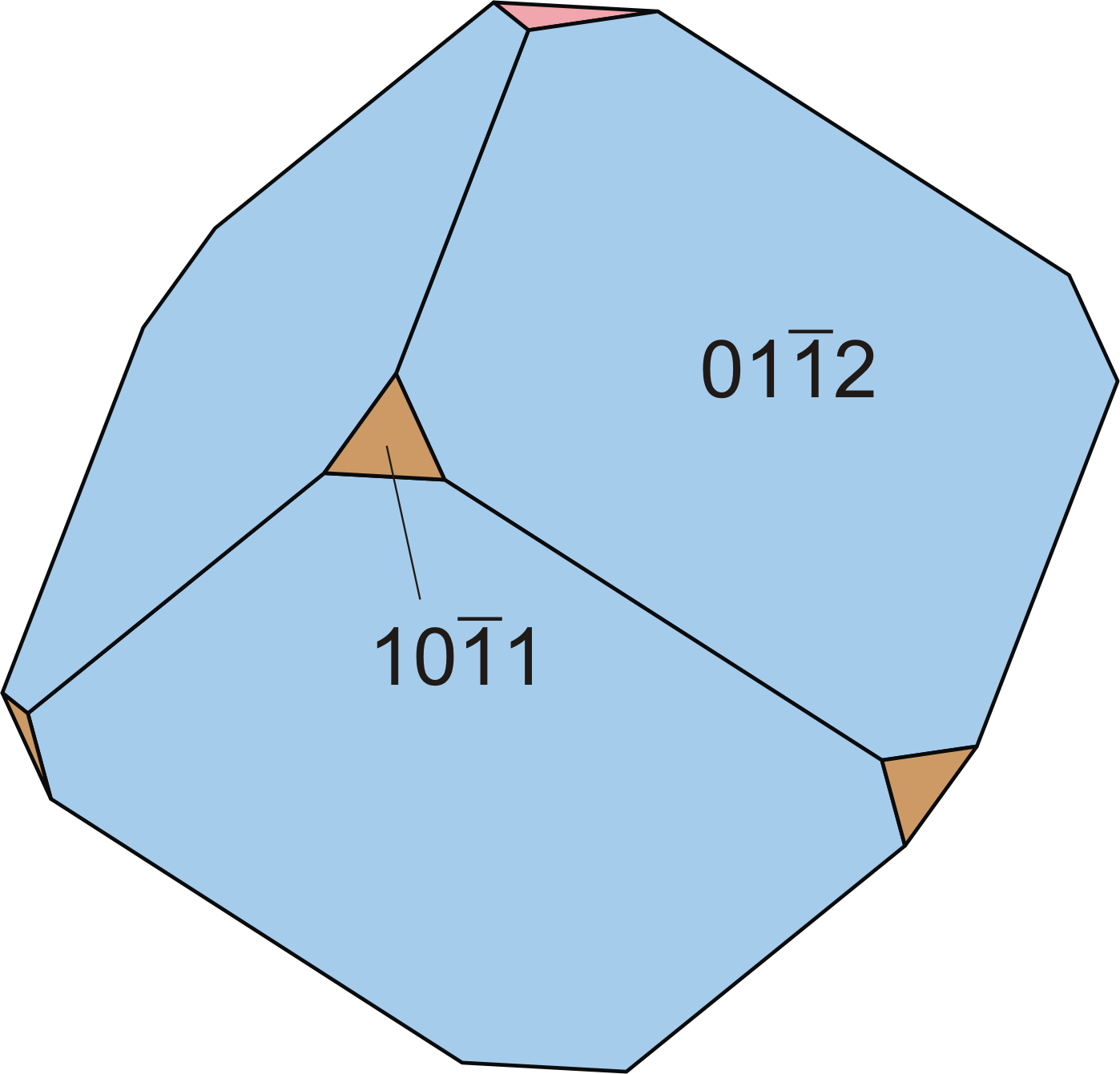 Drawing of a pseudo-cubic Beudantite crystal from Horhausen, Westerwald; reference: Hintzes Handbuch der Mineralogie, volume 1.4,2, page 725